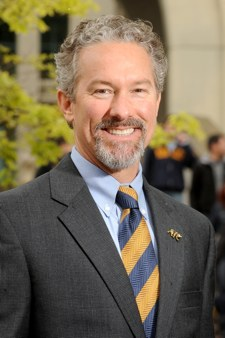 14th Dean of the Haas School of Business and Professor of Business Richard K. Lyons, American academic (Economics & Business)